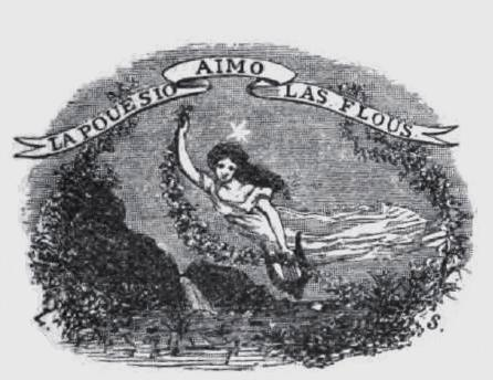 A picture portraying poetry.